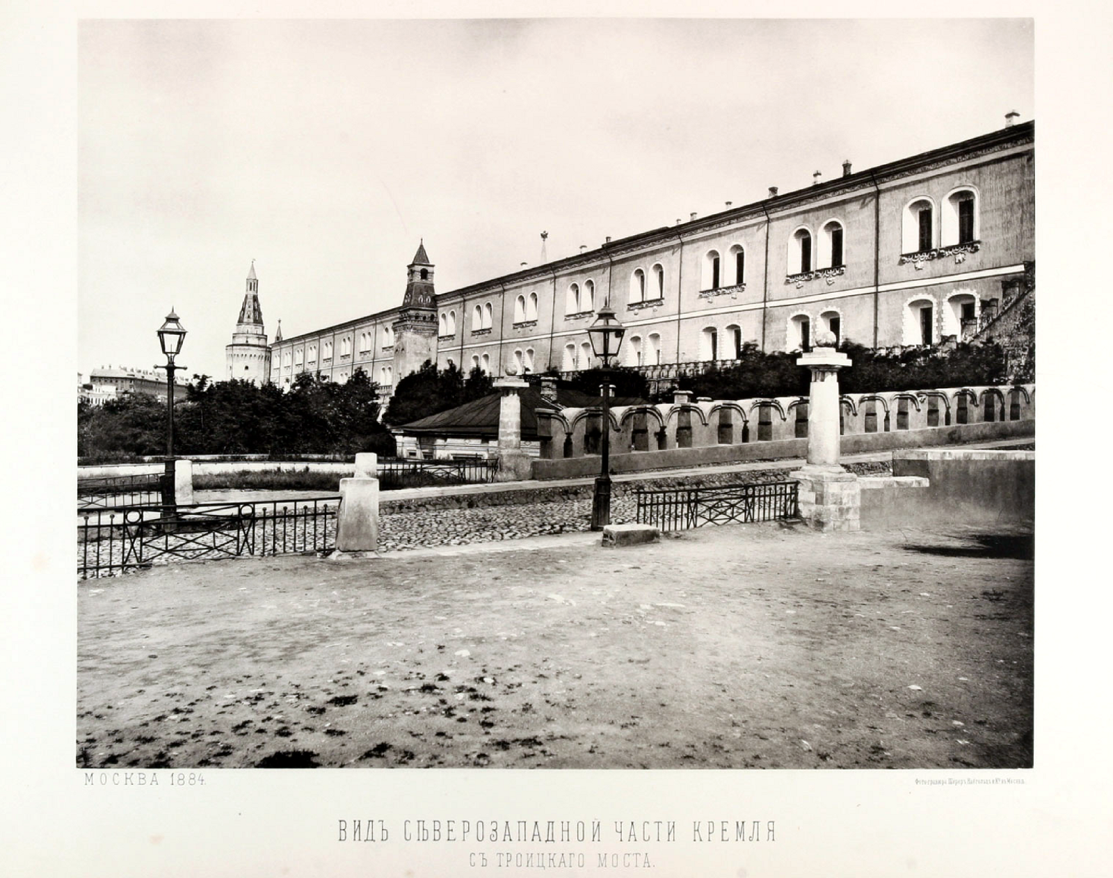 Plate 10: View of Kremlin from Troitsky Bridge.